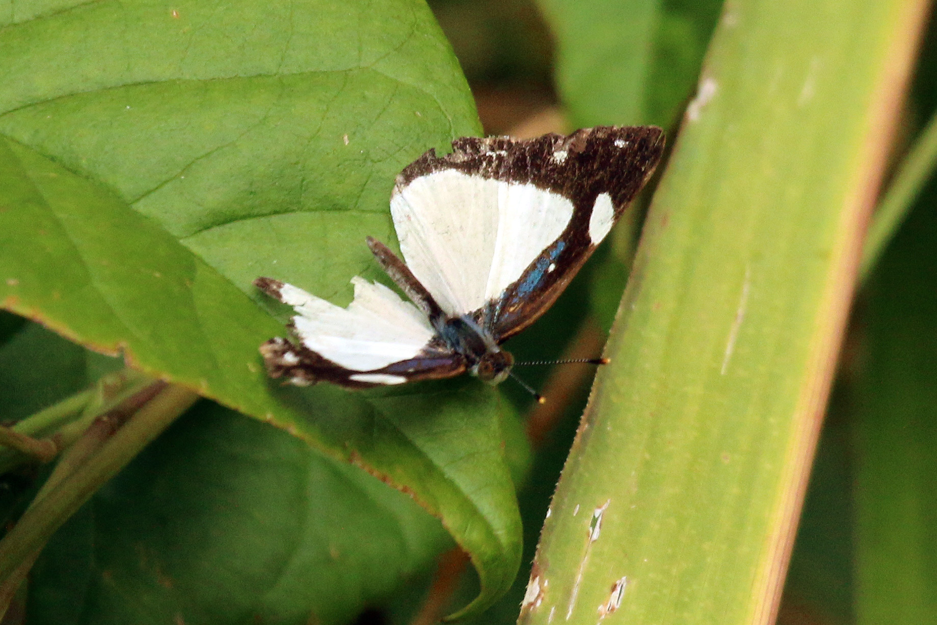 White sailor (Dynamine theseus) Tobago